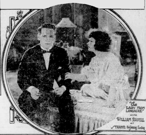 Newspaper advertisement for the American film The Lady from Longacre (1921) with William Russell and Mary Thurman, on page 4 of the December 3, 1921 Duluth Herald.